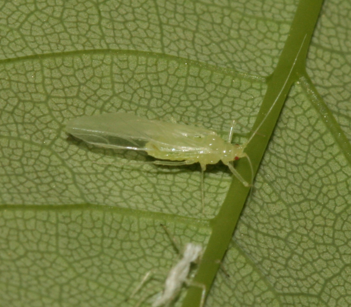 Bolton Muir Wood, East Lothian, Scotland